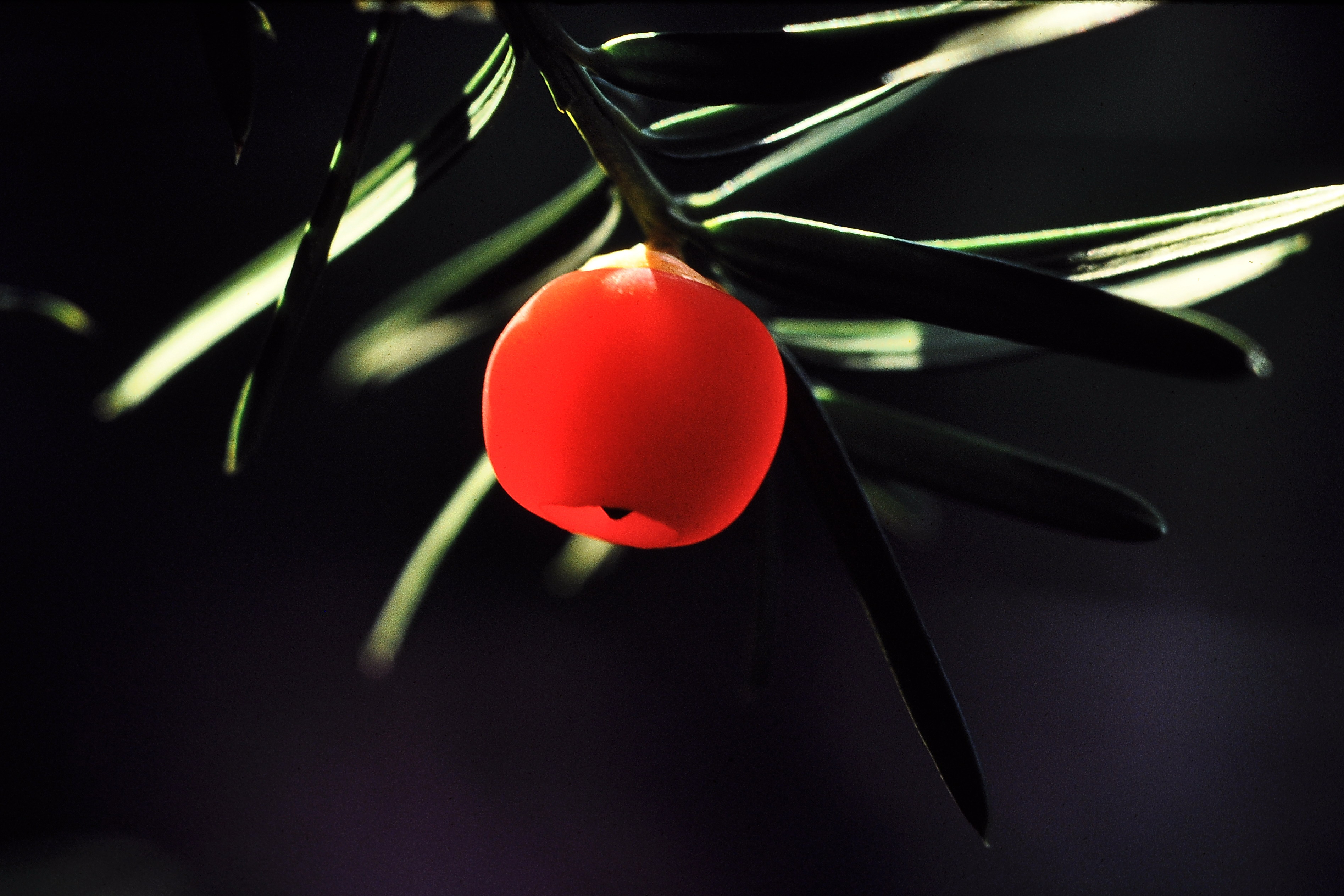 Berry of yew